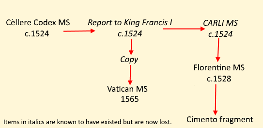 Graphic re-representation of the provenance of the according to B. J. Hoffman, Cabot to Cartier: Sources for a Historical Ethnography of Northeastern North America 1497-1550 (University of Toronto Press: Toronto), p. 48.